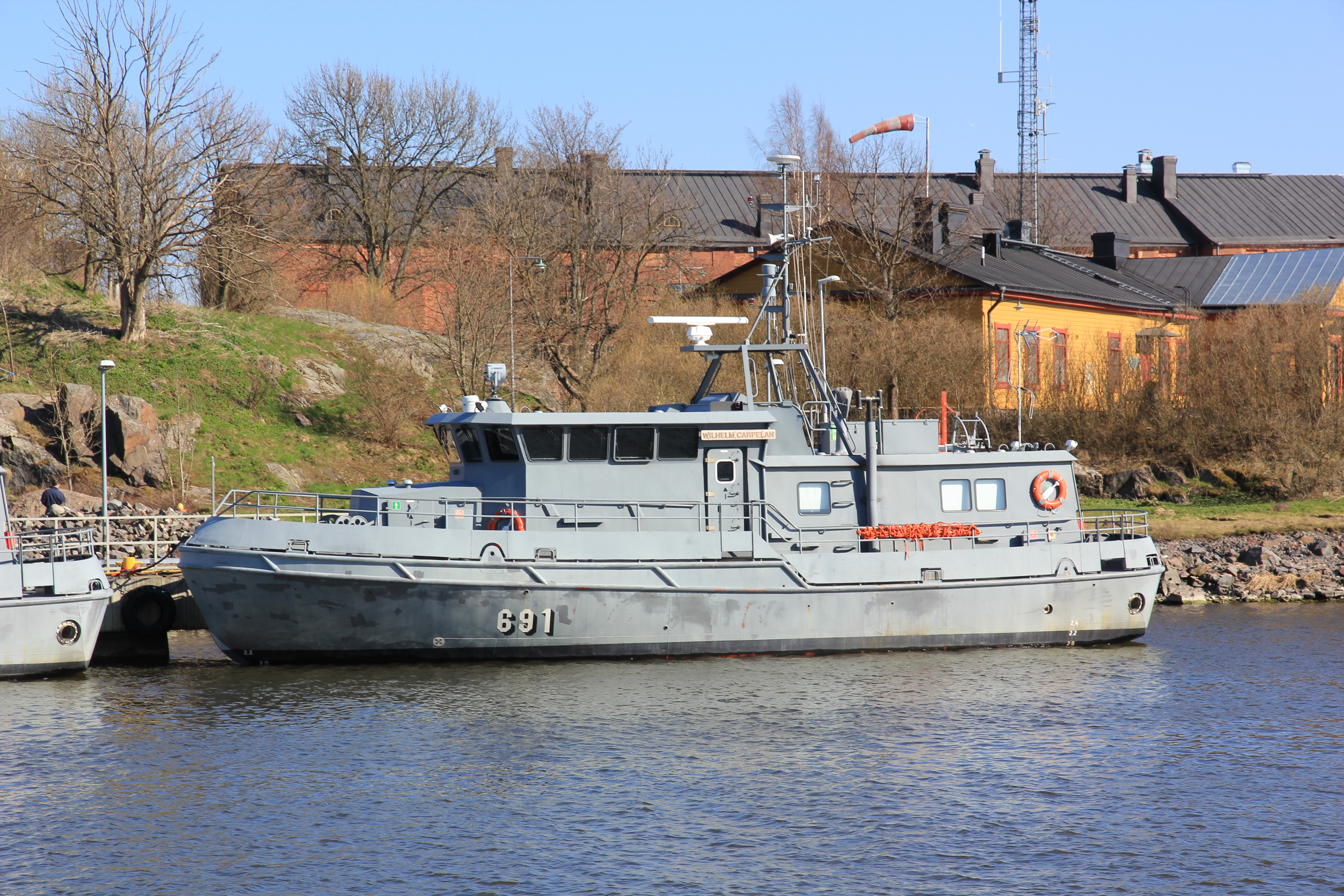 Finnish navy training ship Wilhelm Carpelan (691) in Suomenlinna.